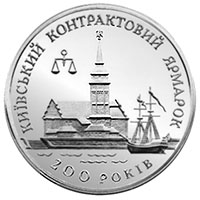 Coin of Ukraine